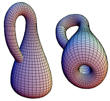 Two views of a Klein bottle in three dimensions.